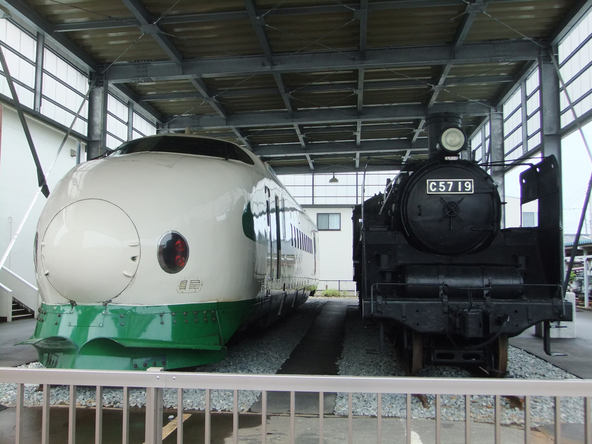 200 series shinkansen car 221-1510 (formerly of set K47) and Class C57 steam locomotive C57 19 preserved outside the Niigata City Niitsu Railway Museum in Niitsu, Niigata, Japan